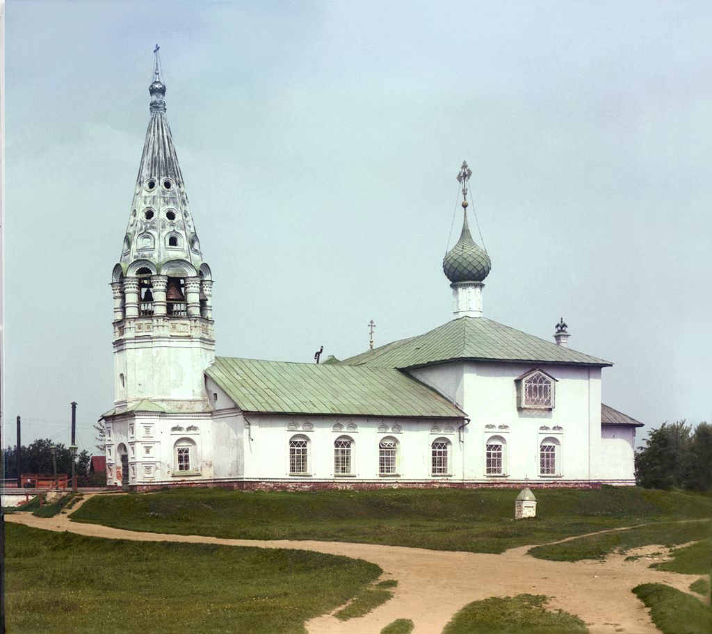 Church of St. Nicholas Pensky (the winter church of the Church of the Fyodorovskaya Mother of God). Yaroslavl, 1911